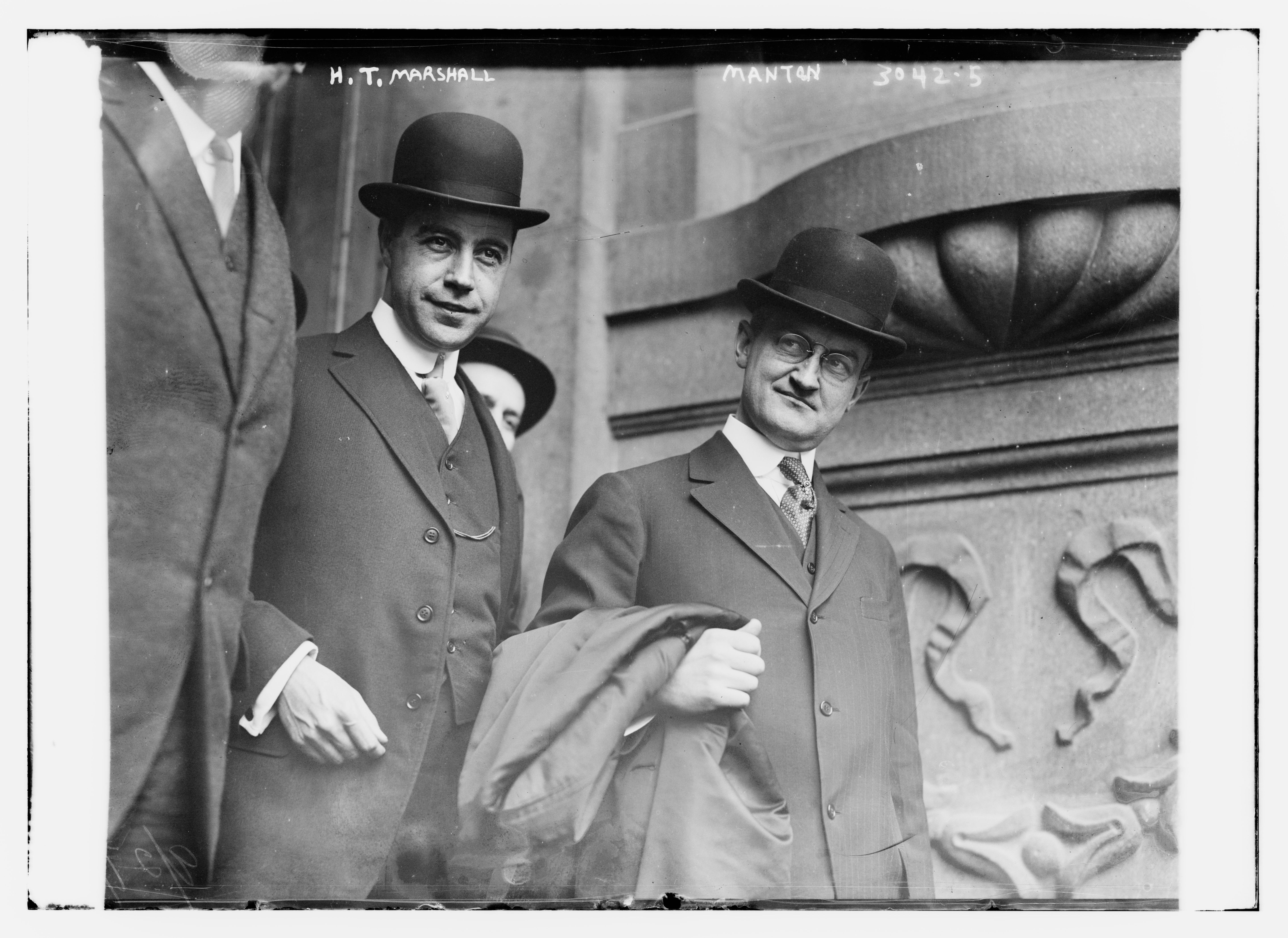 H. T. Marshall and Martin Thomas Manton in 1914 (LOC) Bain News Service,, publisher. H.T. Marshall, Manton [between ca. 1910 and ca. 1915] 1 negative : glass ; 5 x 7 in. or smaller. Notes: Title from unverified data provided by the Bain News Service on the negatives or caption cards. Forms part of: George Grantham Bain Collection (Library of Congress). Format: Glass negatives. Repository: Library of Congress, Prints and Photographs Division, Washington, D.C. 20540 USA, General information about the Bain Collection is available at Persistent URL: Call Number: LC-B2- 3042-5